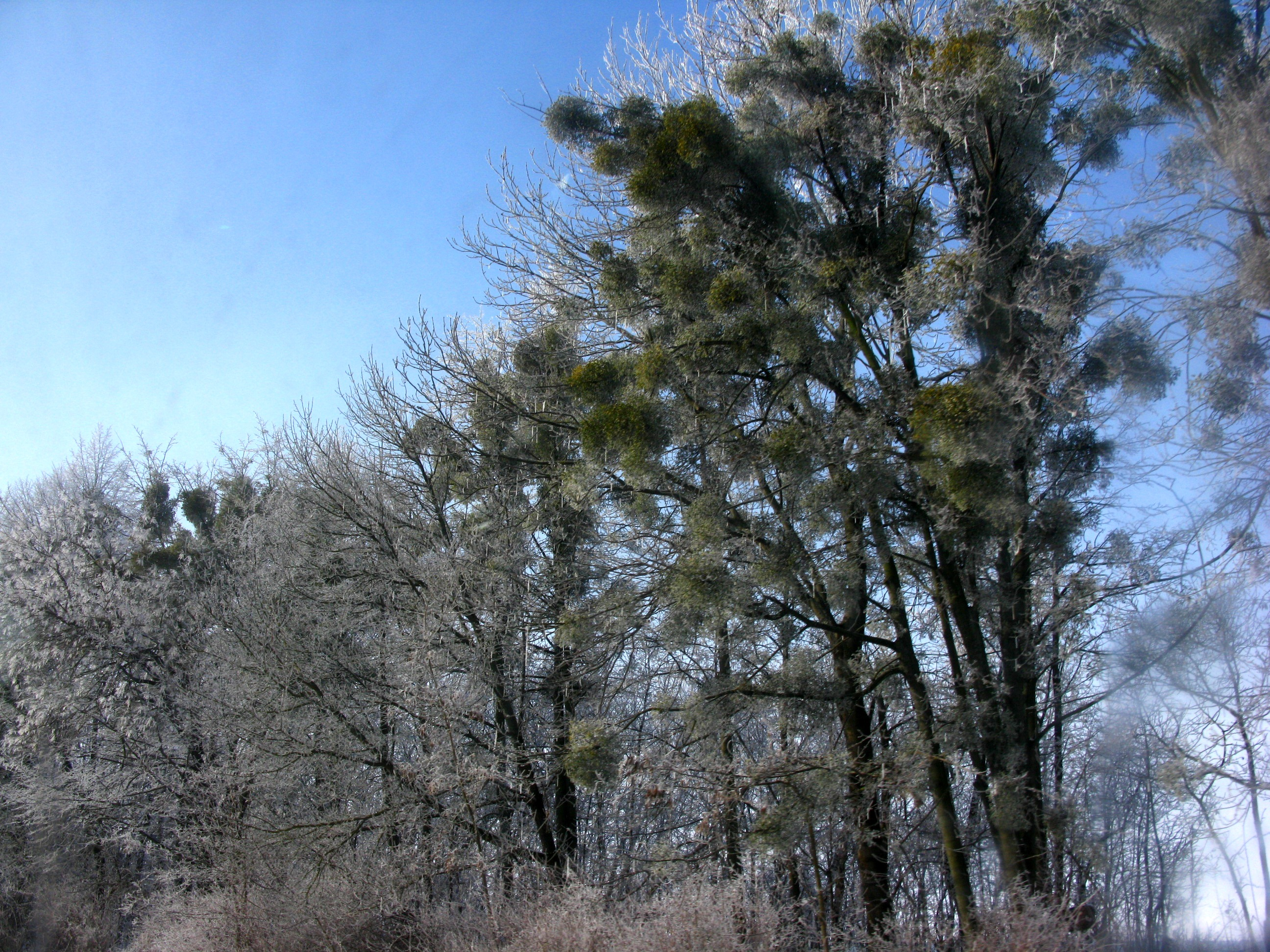 Mistletoe (Viscum album) in winter, western Ukraine.